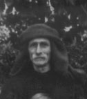 Levan Kursua/Levan Qursua